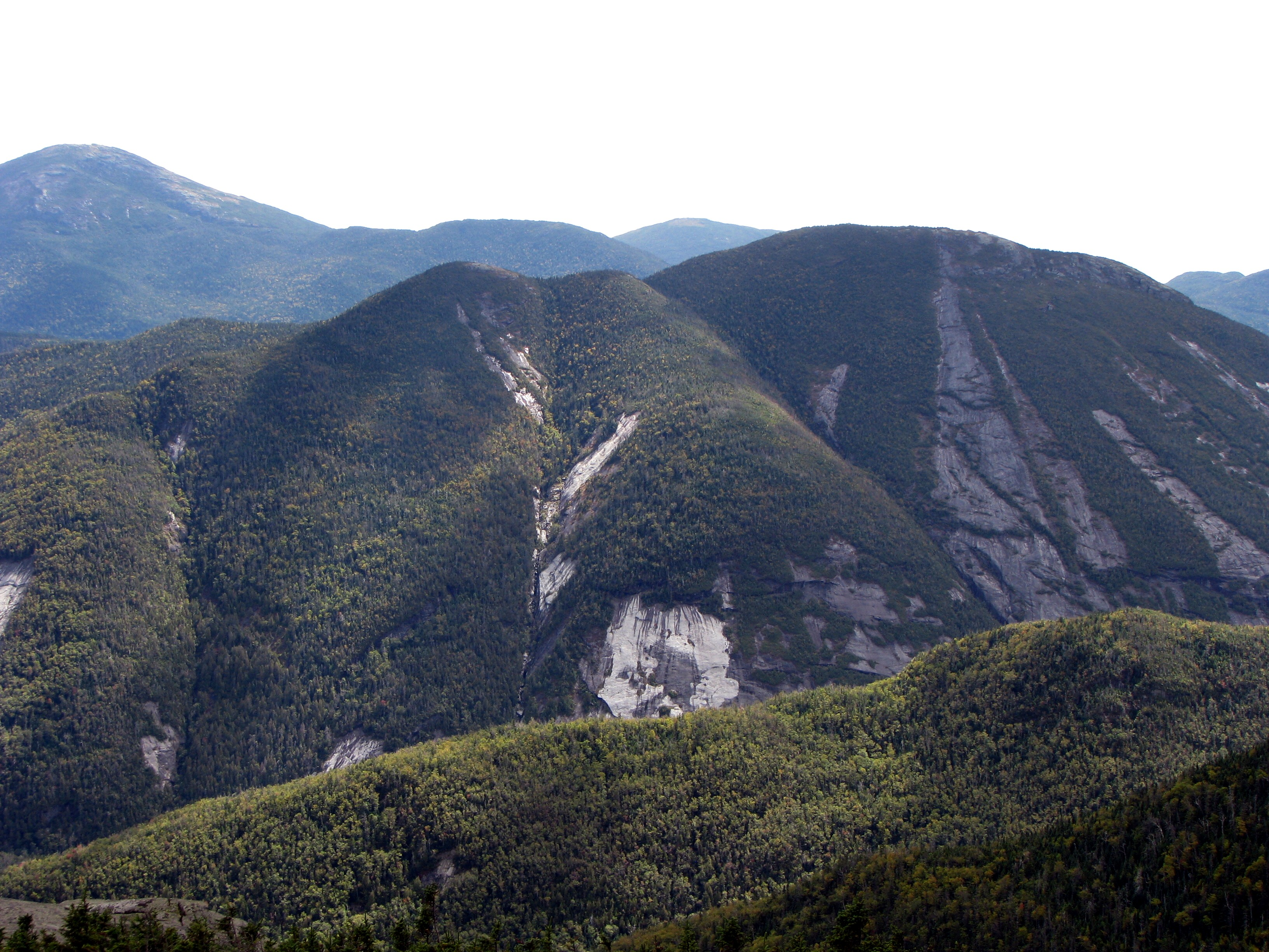 Mount Colden, in the Marcy Group, Adirondack High Peaks, from Wright Peak.